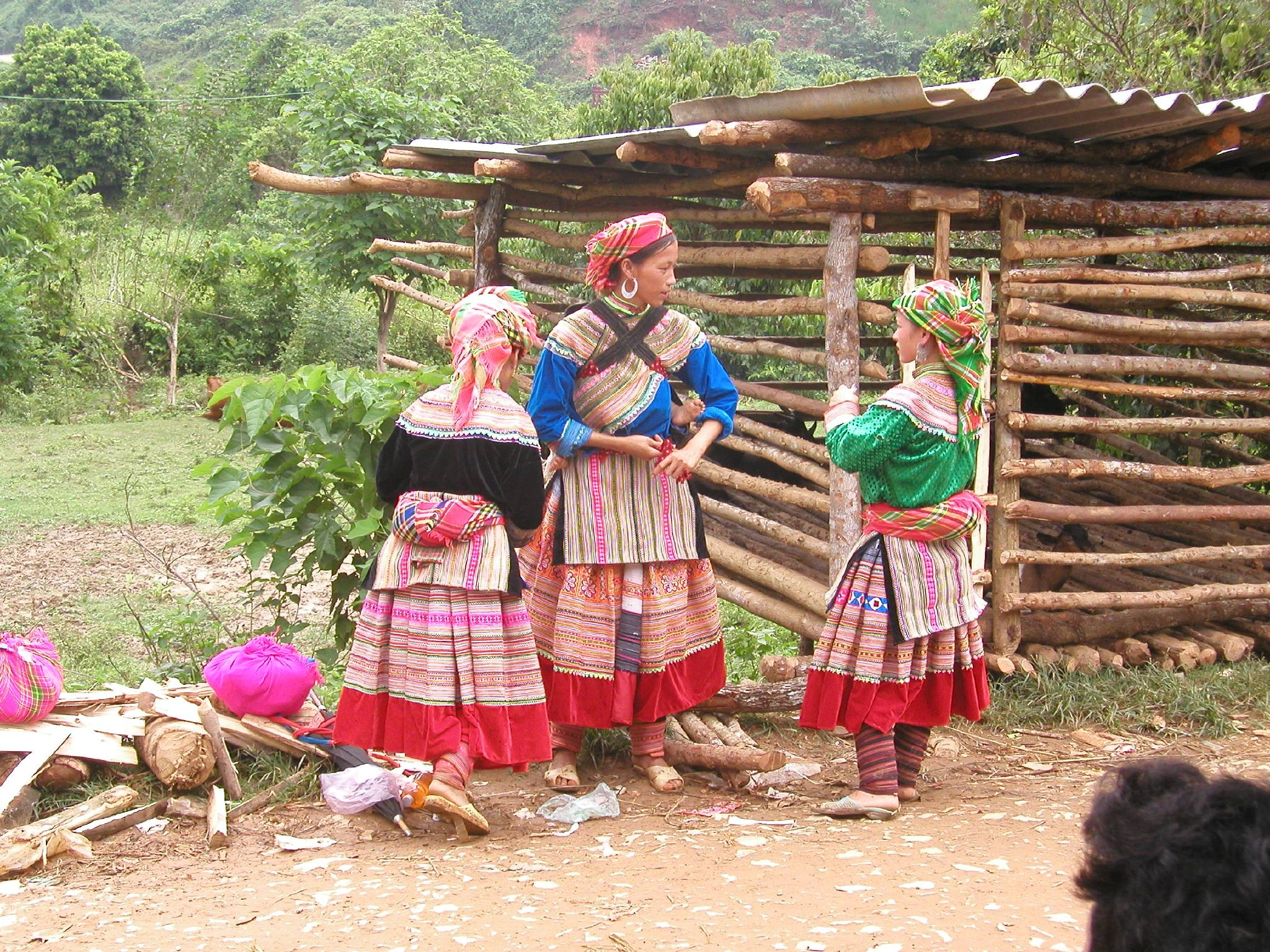 Flower Hmong women